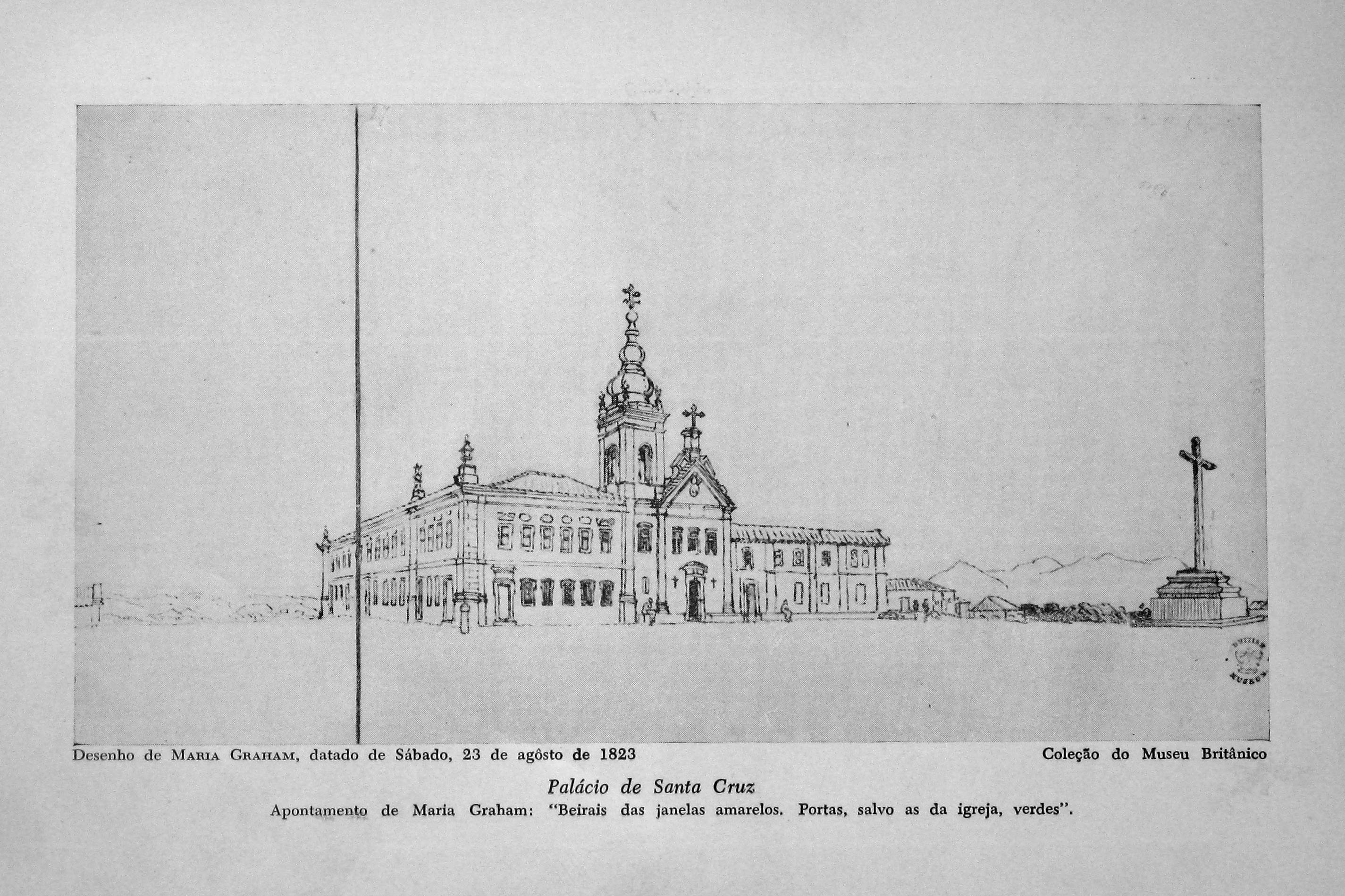 Palace of Santa Cruz Estate, for long a rural property of the House of Braganza (Royal and later Imperial Family of Brazil)